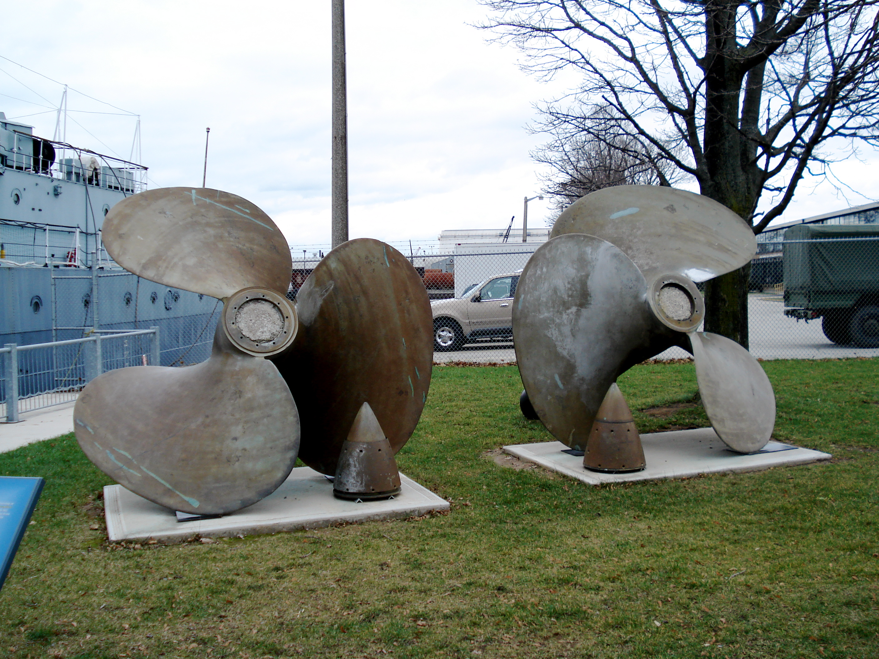 Destroyer HMCS Haida moored as museum ship at Hamilton, Ontario. Photo taken on December 2, 2006. Source: Photo by me, User:Balcer.